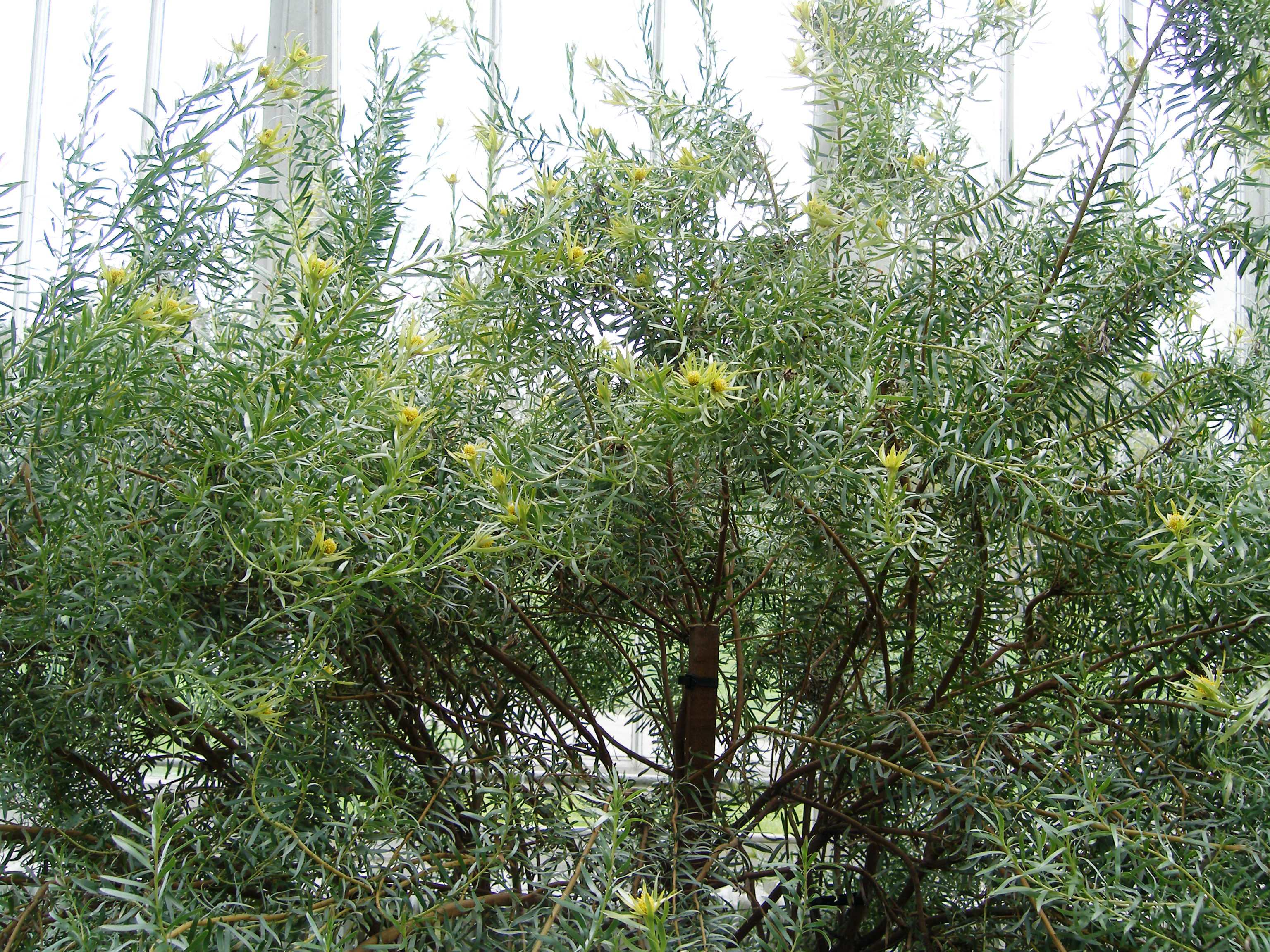 Specimen in cultivation at the Royal Botanic Gardens, Kew, United Kingdom.